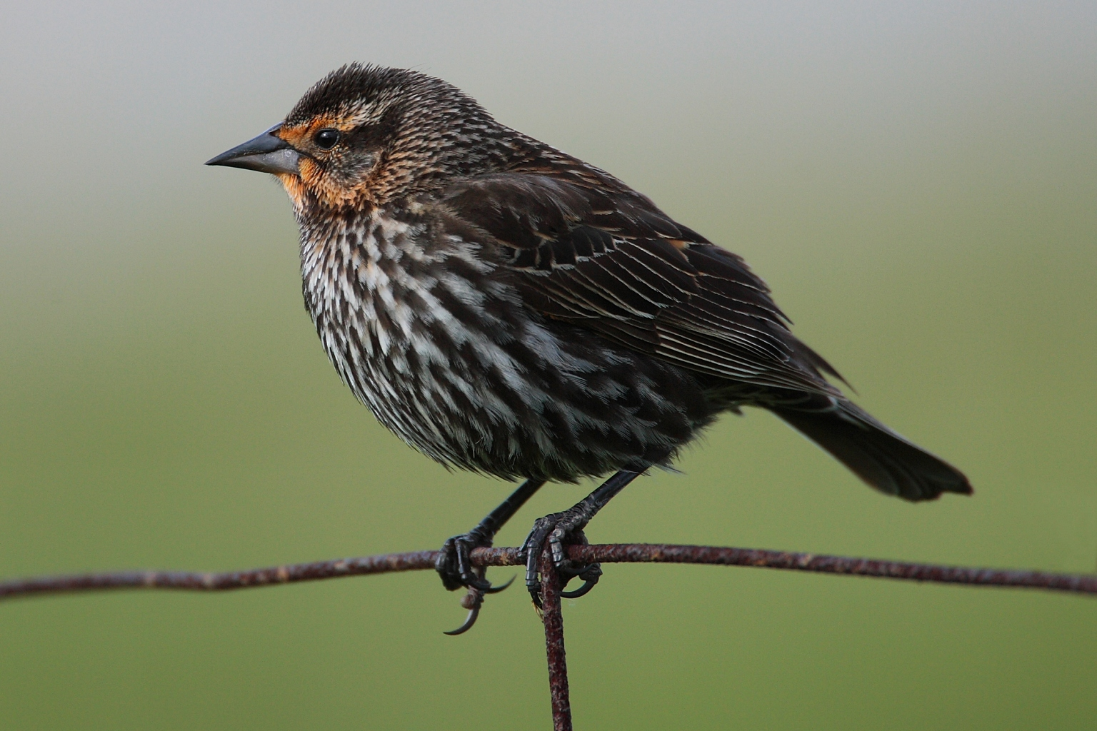 Red-Winged Blackbird (female) -- Hillman Marsh (near Point Pelee), Canada -- 2006 May